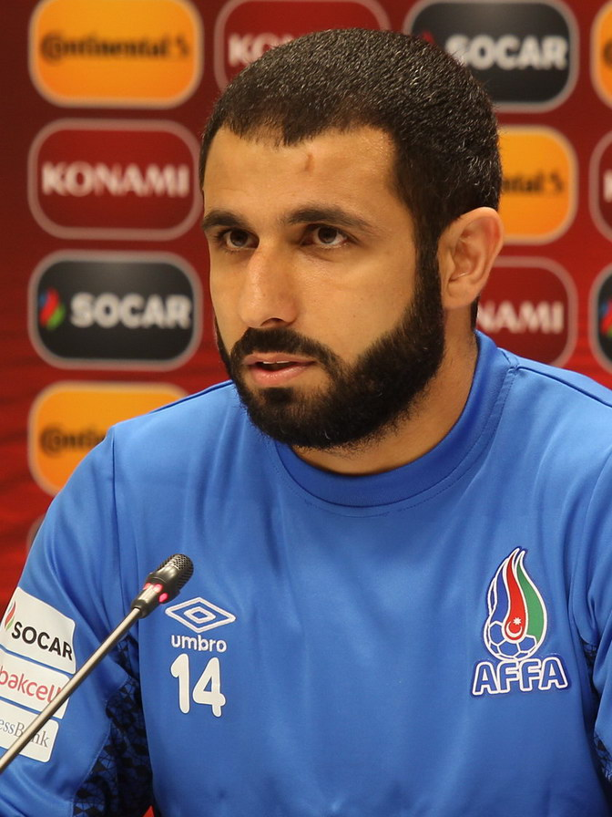 Rəşad Sadıqov